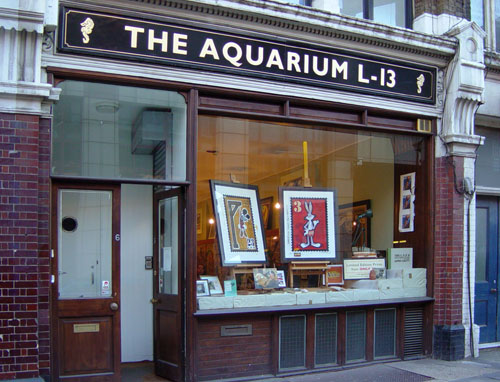 The Aquarium L-13 gallery, 63 Farringdon Rd, London EC1M 3JB